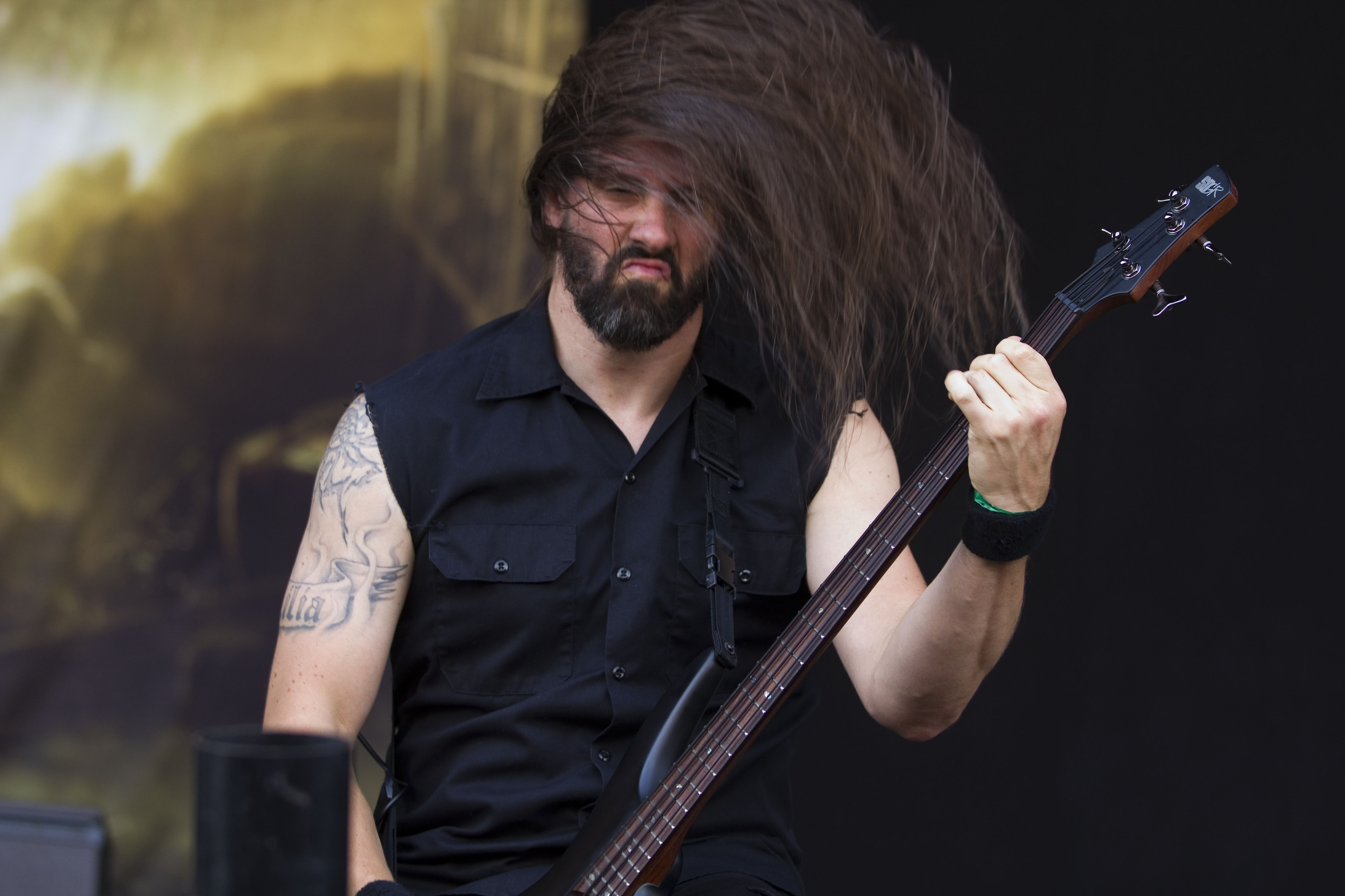 The French Canadian death metal band Kataklysm at the With Full Force festival 2014 in Roitzschjora/Germany